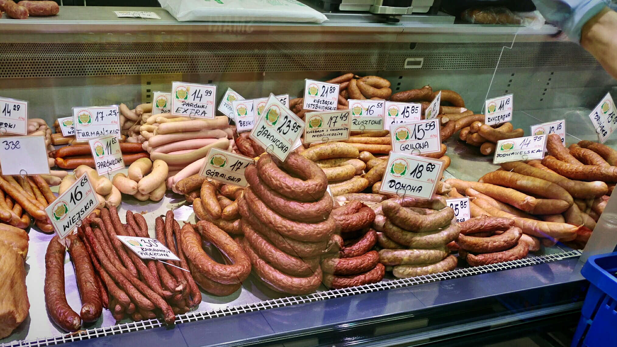 Various kinds of Polish kiełbasa